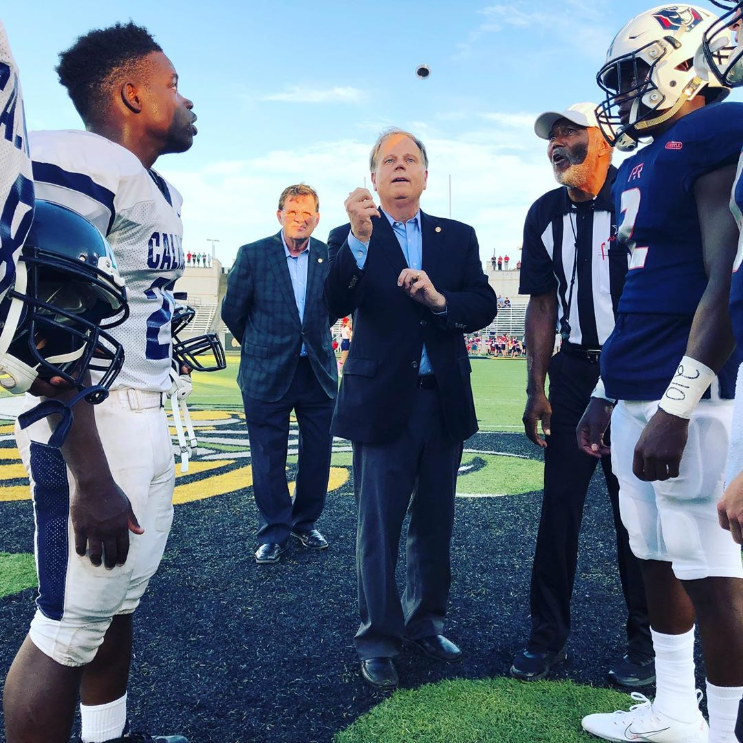 It is that exciting time of year again - high school football season. It was really great to be able to do the coin toss for the Calhoun Tigers and Pike Road Patriots as they start the season. Now if we can only get a little cooler weather down this way! Next up - college football!!!!